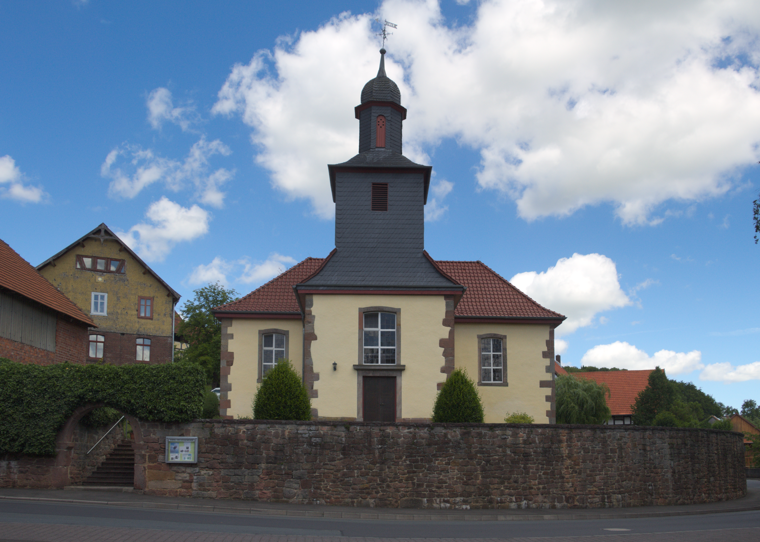 Protestant Church in Kruspis, Haunetal, Hesse, Germany